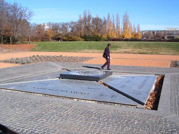 Category:Images of Canberra The Canberra peace park is beside Lake Burley Griffin and the National Library of Australia in Canberra. I took this picture on 21 May 2006. Peter Ellis!